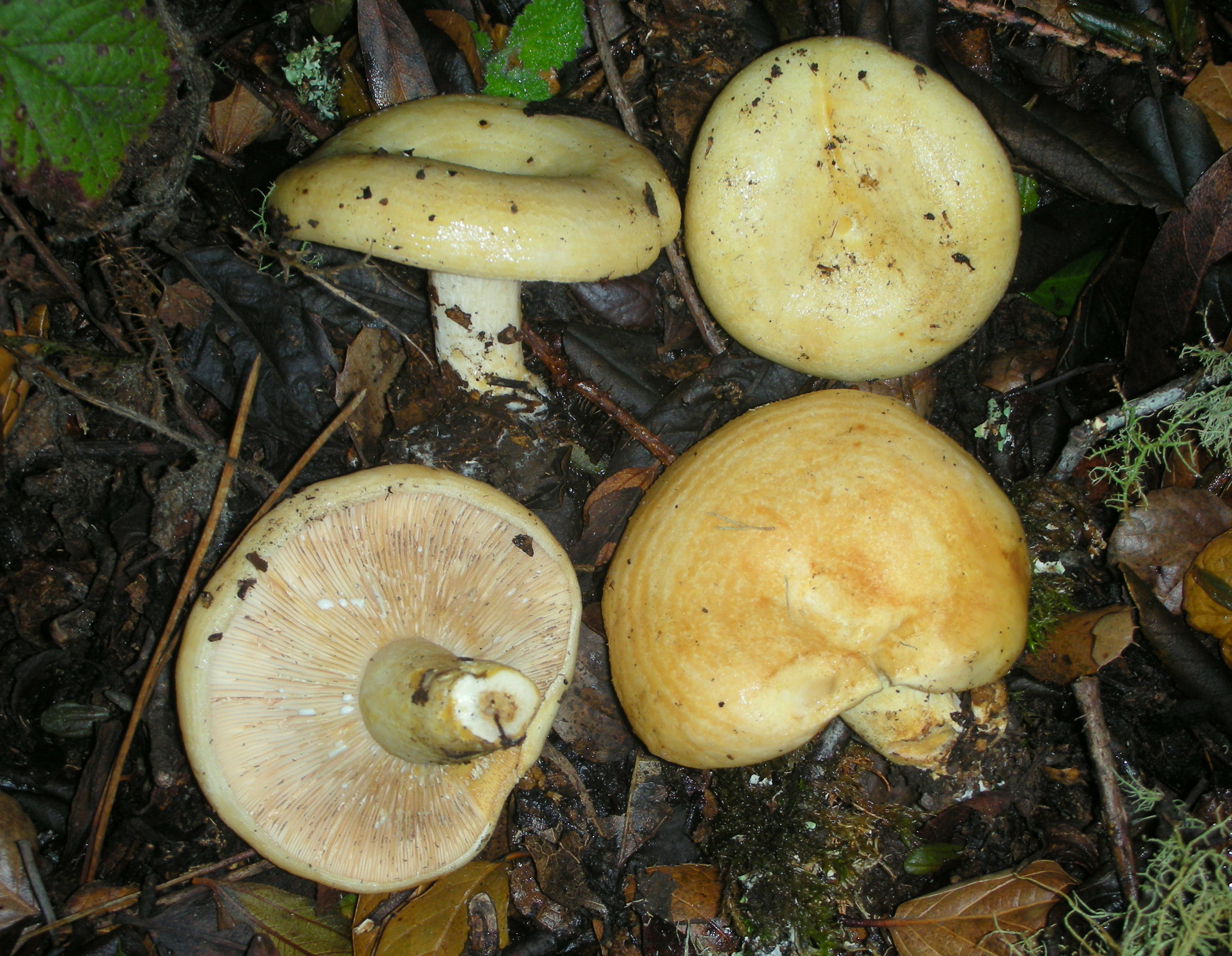 Lactarius alnicola A.H. Sm. Location: Point Reyes National Seashore, Marin Co., California, USA Observation Notes: Interesting that this common species apparently hadn’t yet been reported on MO from Point Reyes. They were growing in association with live oak. For more information about this, see the observation page at Mushroom Observer.